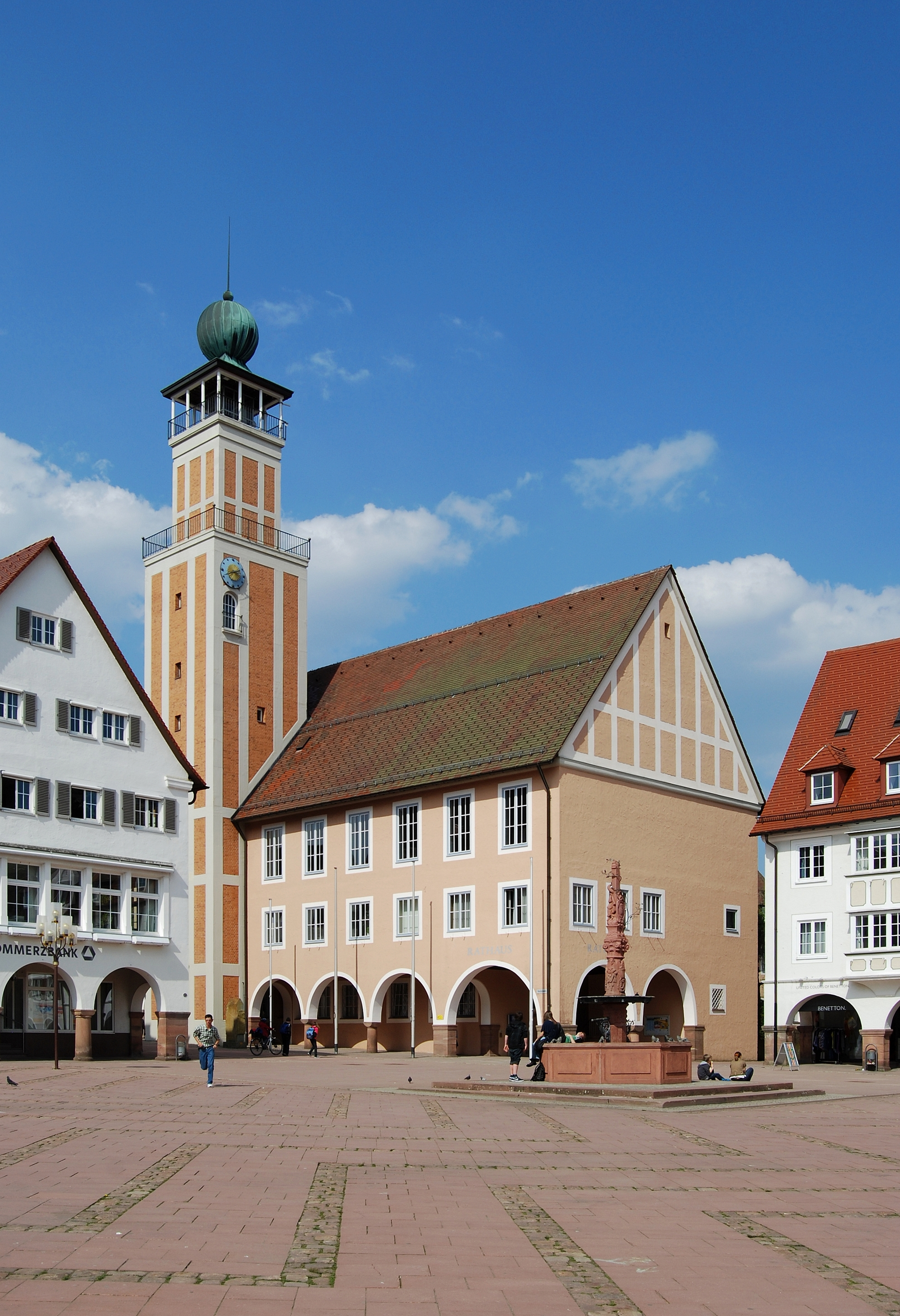 The new town hall of Freudenstadt, Black Forest, Baden-Württemberg.